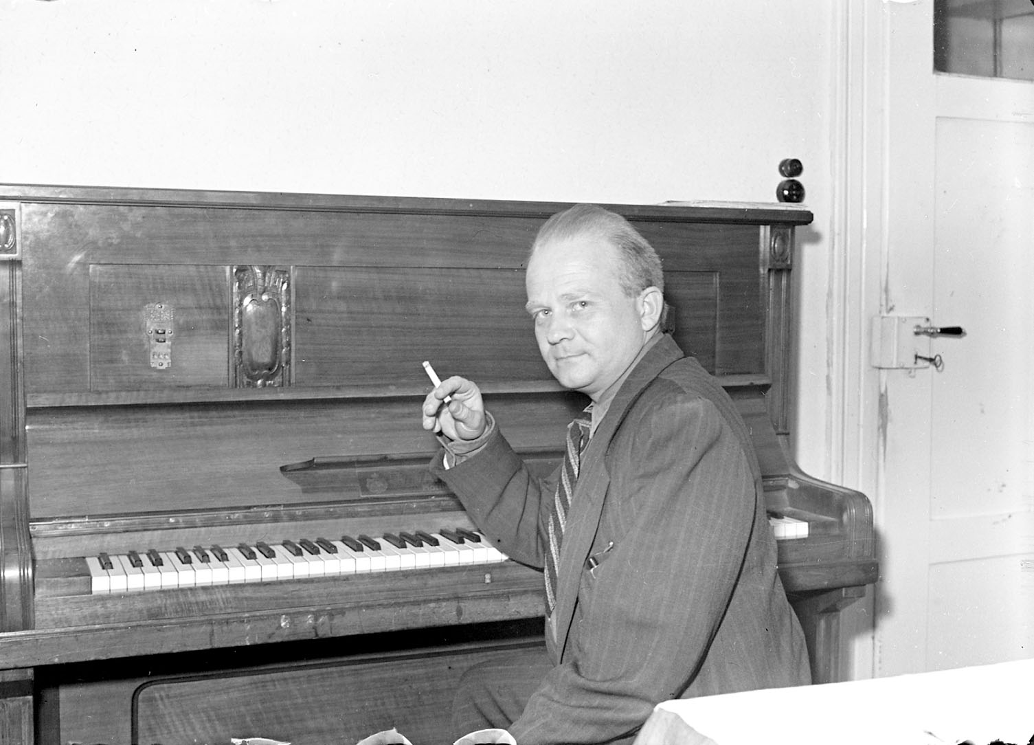 Yuri Arbatsky (1911–1963) was a musicologist and composer of Russian origin, US citizen from 1957. Around 1948-1950 he lived in Regensburg where he met our family and where this portrait was taken.